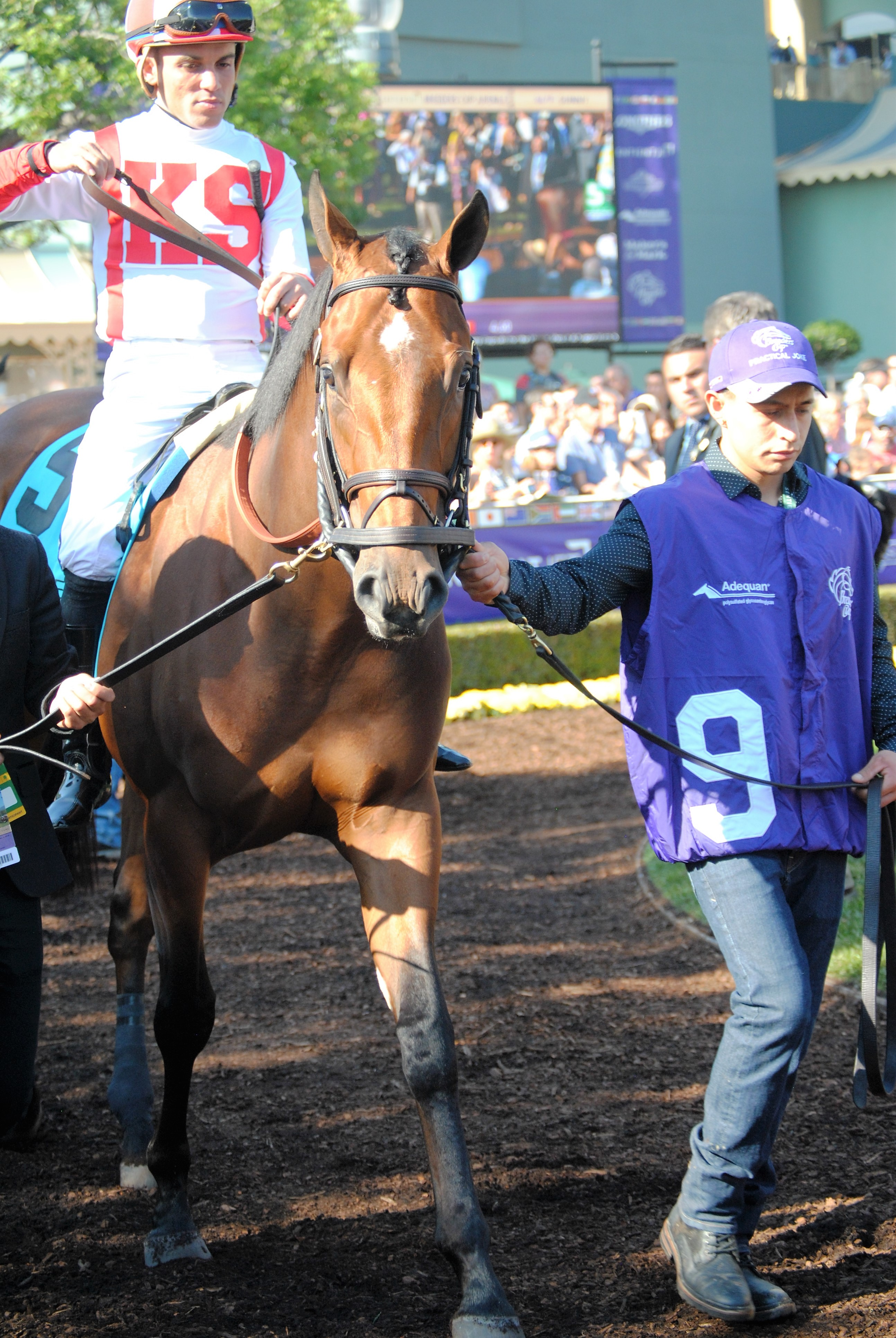 Practical Joke at the 2016 Breeders' Cup Juvenile. Jockey Joel Rosario.